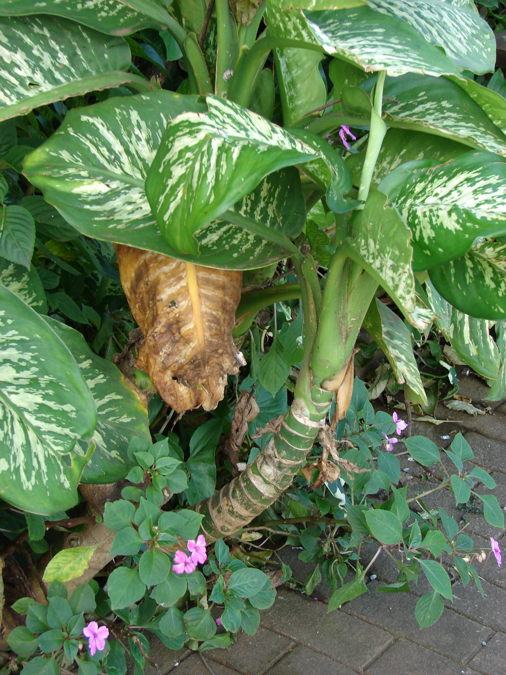 Dieffenbachia seguine (stalk). Location: Maui, Haiku